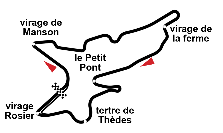 The small track in use since 1989